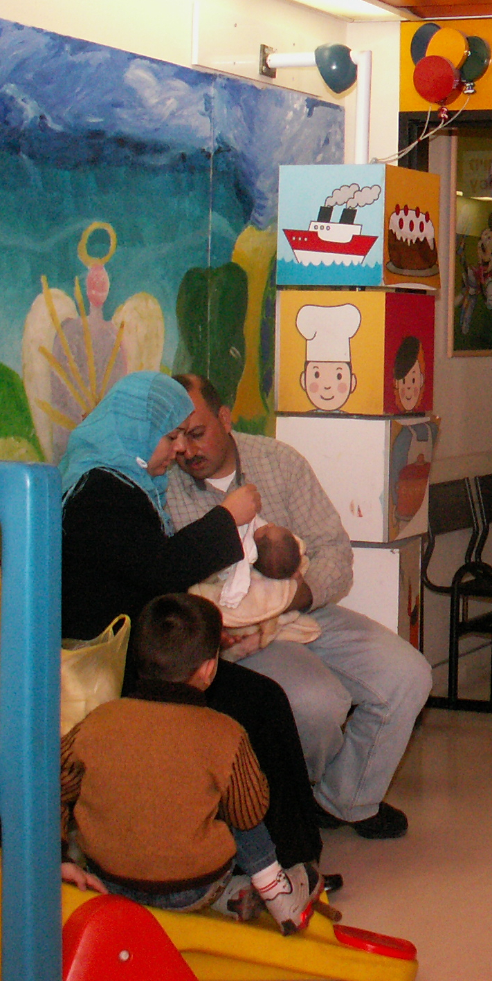 Treatment for all ethnic groups